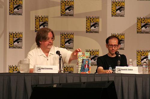 Matt Groening and David X. Cohen at Comic-Con 2007.